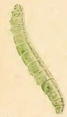 Stainton’s Natural History of the Tineina (1855–1873): Luquetia lobella